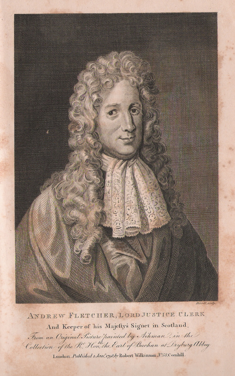 Scan of an engraving in An Historical Account of the Senators of the College of Justice, Edinburgh, 1849, a book now out of copyright. David Lauder 19:34, 14 February 2007 (UTC)